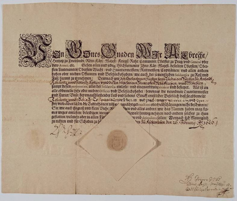 Letter of protection for Louis I, Prince of Anhalt-Köthen, issued by Albrecht von Wallenstein in Aschersleben on 26 February, 1626.